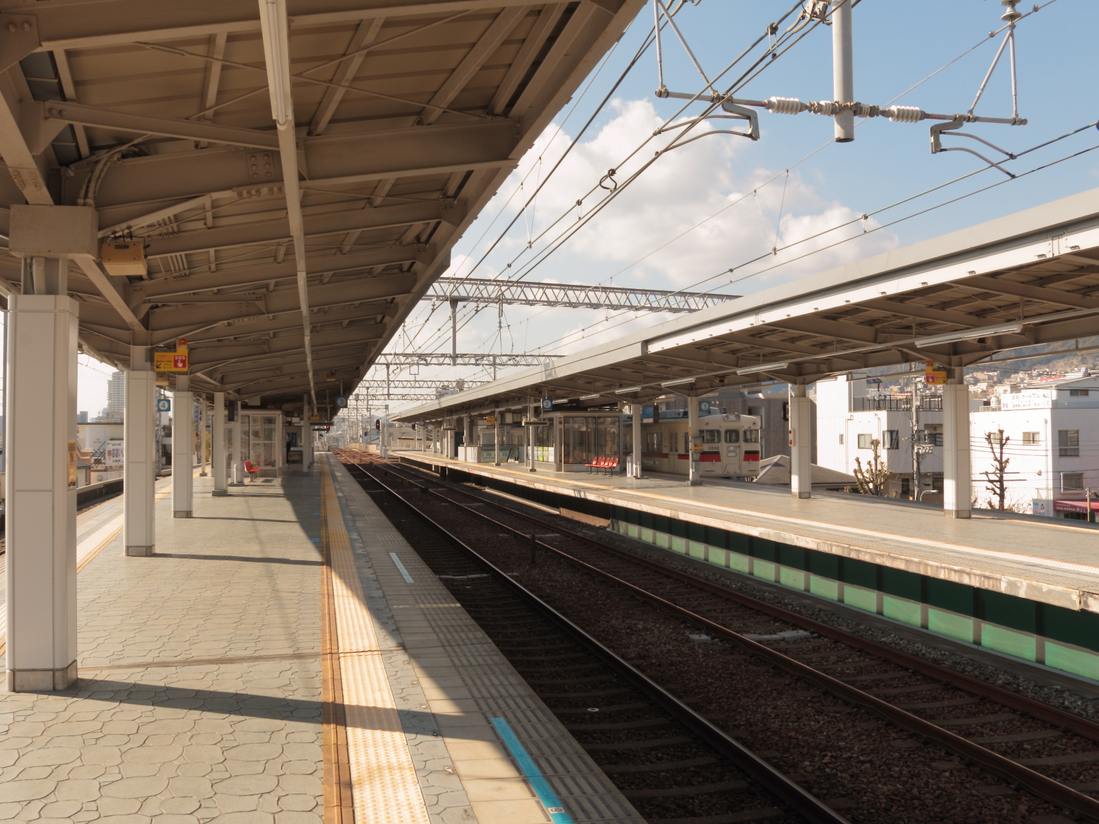 Platform from Ōishi Station.